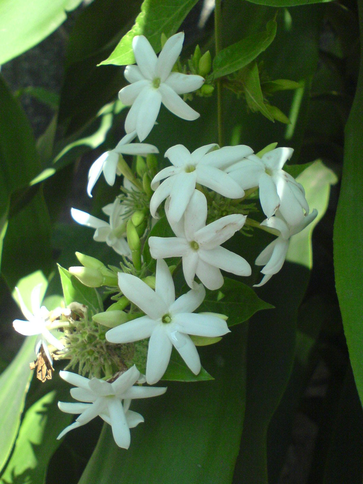 Common name: Indian Jui, Juhi जूही (Hindi), Uccimalligai "உச்சி மல்லிகை" (Tamil), Adavimalle (Telugu), Banamallika (Oriya), Sucimulla (Malayalam), Sanna mallige (Kannada), Jai जाई (Marathi), Yutika युतिका (Sanskrit) Botanical name: Jasminum molle - [ (JAZ-mih-num) latinized form of Persian name; (MAW-ley) meaning soft ] Synonyms: Jasminum auriculatum Family: Oleaceae (Olea or olive family) - [ (oh-lee-AY-see-ay) The Olea (olive) family ] Origin: India Juhi is a beautiful flower with extremely heavy gardenia type scent. This species is not very common though it deserves a special attention. For those who are familiar with this plant, Juhi is a most wonderful Jasmine. A stunning, small scandent bushy plant with simple ovate dark green small leaves and powdery satin white flowers. Posessing a strong gardenia like scent, flowers appear in bunches from summer to fall. Very easy to grow, takes both sun and shade, dry and moist conditions. Highly recommended jasmine for scented garden or as indoor plant. A must for everyone who appreciates fragrant flowers. The flower is held sacred to all forms of Goddess Devi and is used as sacred offerings during Hindu religious ceremonies. Reference: Flowers of India Blogged at: Slice of the Day by Vasant M. Salian